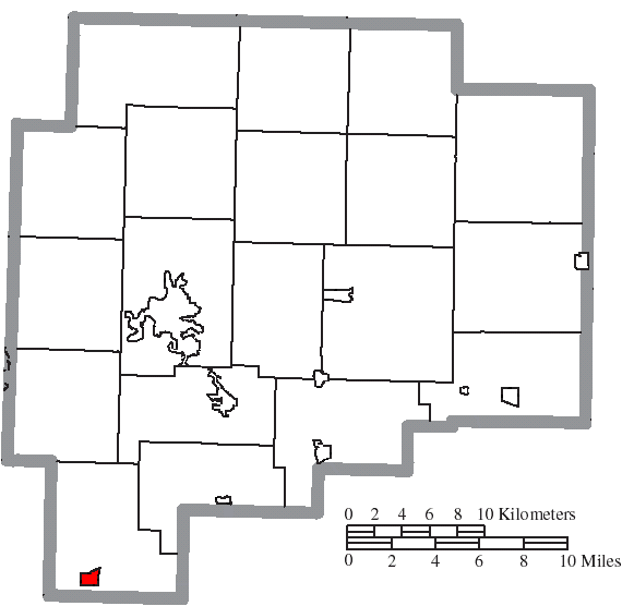 Map of the municipal and township boundaries of Guernsey County, Ohio, United States, as of the 2000 census, with the location of the village of Cumberland highlighted. Township borders are shown only in unincorporated areas in order to differentiate incorporated and unincorporated areas more clearly.